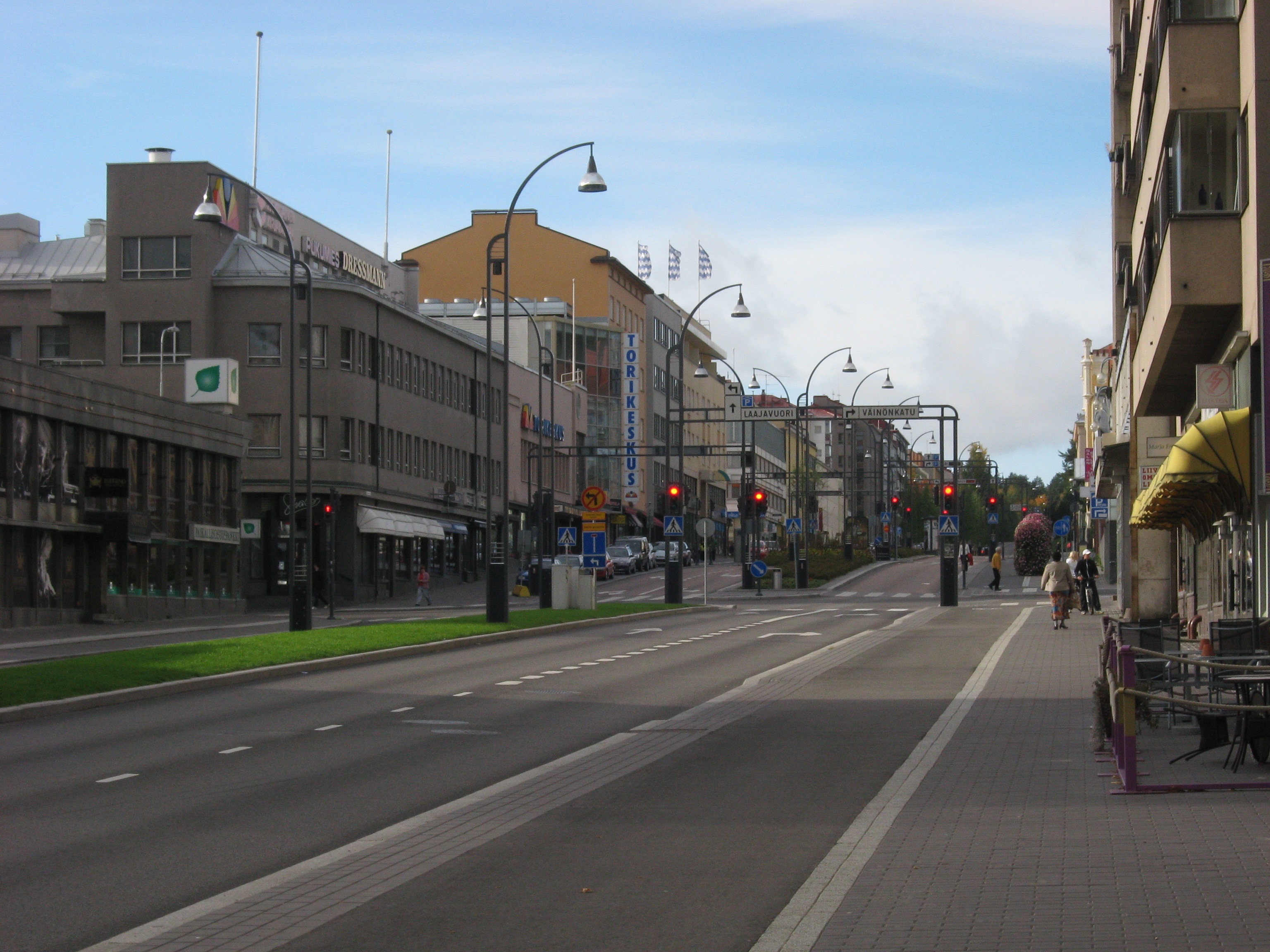 Street-level view from Yliopistonkatu towards Torikeskus, over Väinönkatu crossroad.